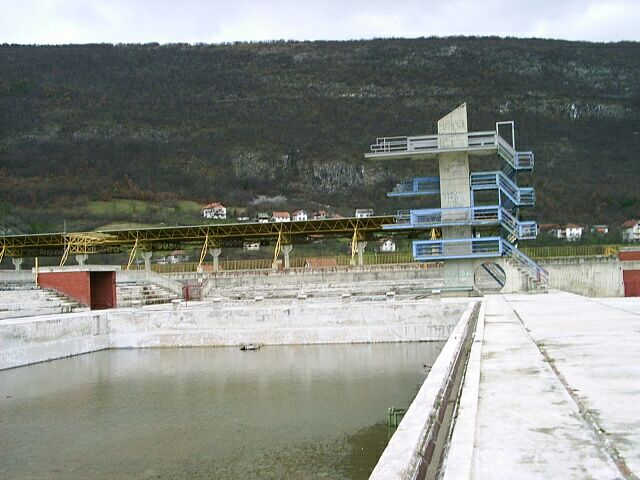 A swimming pool in Drvar, Bosnia and Herzegovina